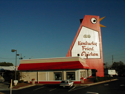 "The Big Chicken" KFC restaurant, Marietta, Georgia, USA